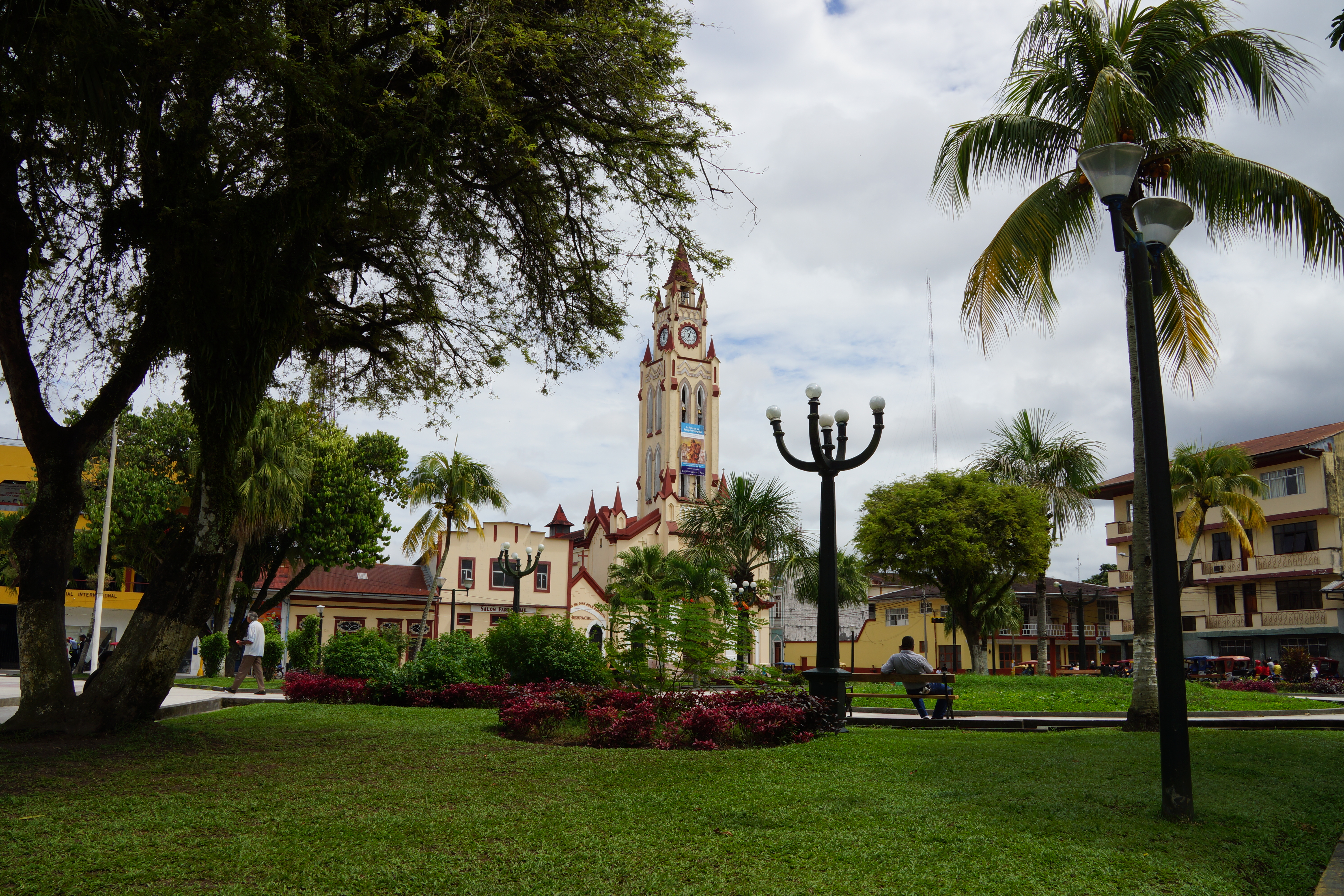 The Cathedral of Iquitos on the main square